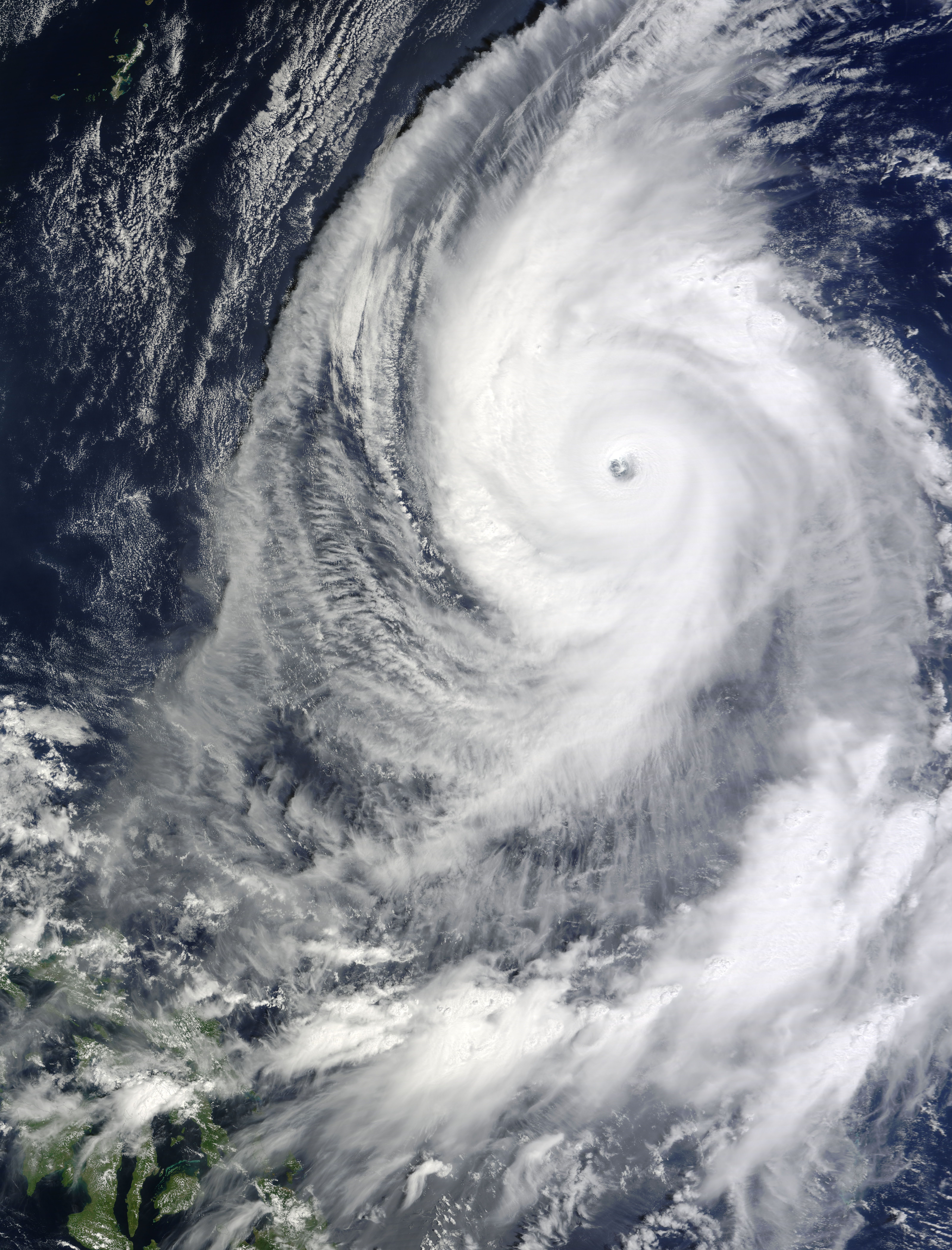 Super Typhoon Lupit (22W) in the Philippine Sea.